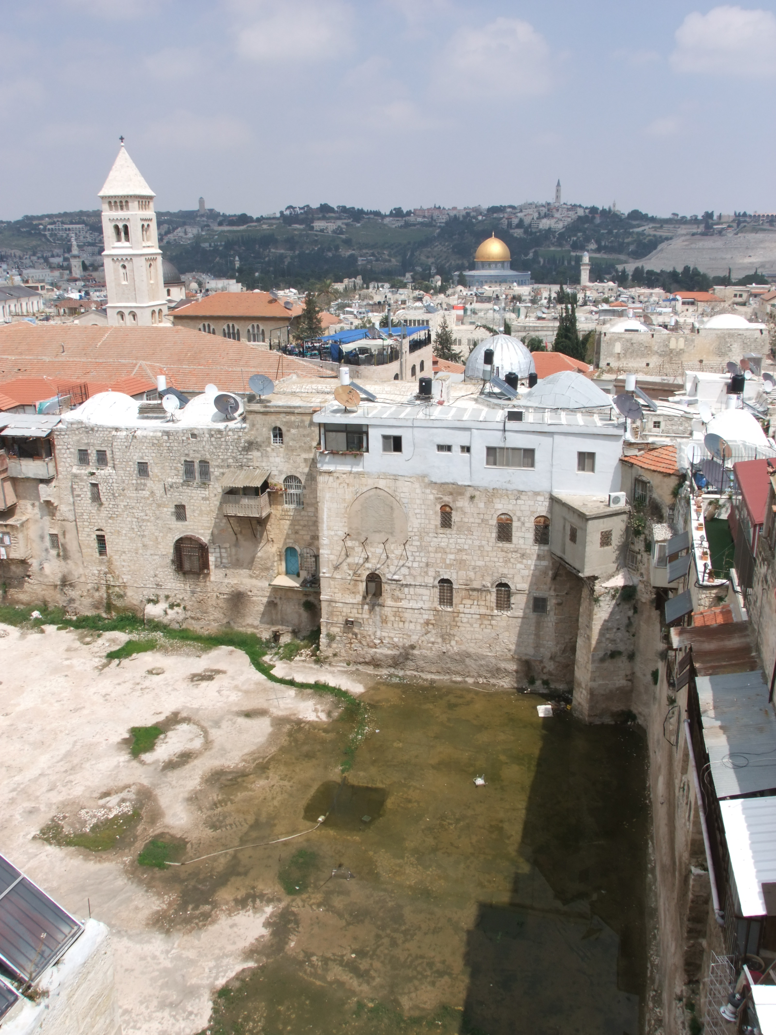 Hezekiah's pool near the Jaffa gate in the old city of Jerusalem, from the roof of Petra Hotel.